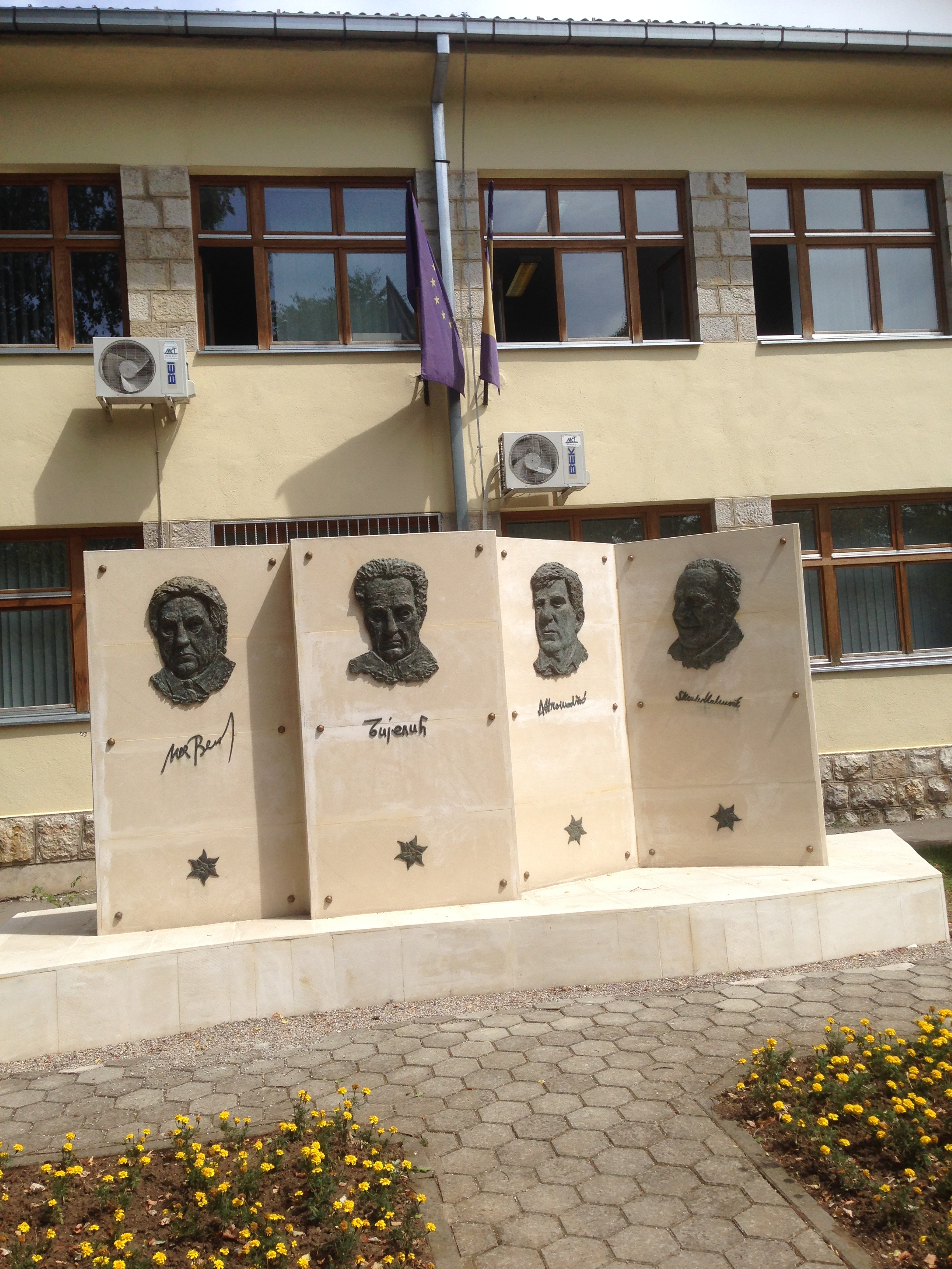 Great mans